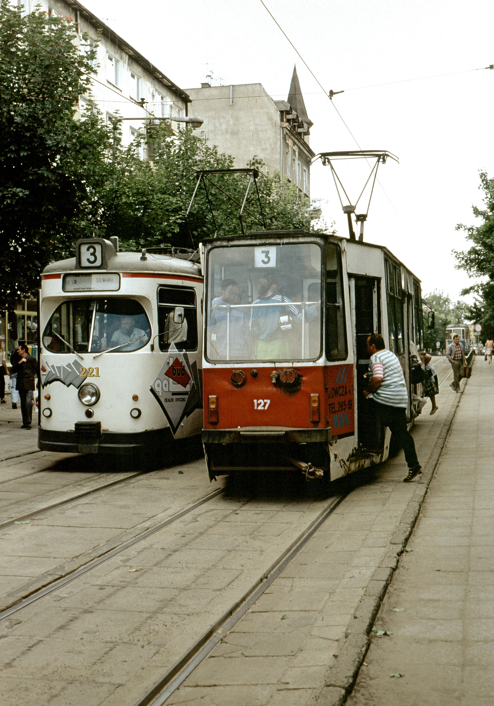 Duewag and Konstal in Gorzow